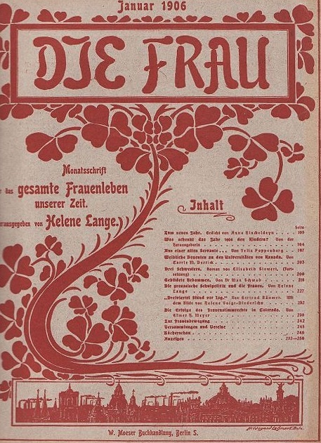 Cover of the journal Die Frau, January 1906. Journal of the Bund deutscher Frauenvereine (german for: Union of German Feminist Organizations), published by Helene Lange. Including a part of the novel Drei Schwestern (german for: Three Sisters), written by Elisabeth Siewert (1867–1930).